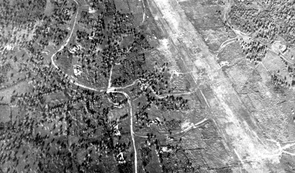 Aerial view of the Japanese airfield at Dulag, Leyte, Philippines, that was shelled by the U.S. Navy light cruiser USS Columbia (CL-56).